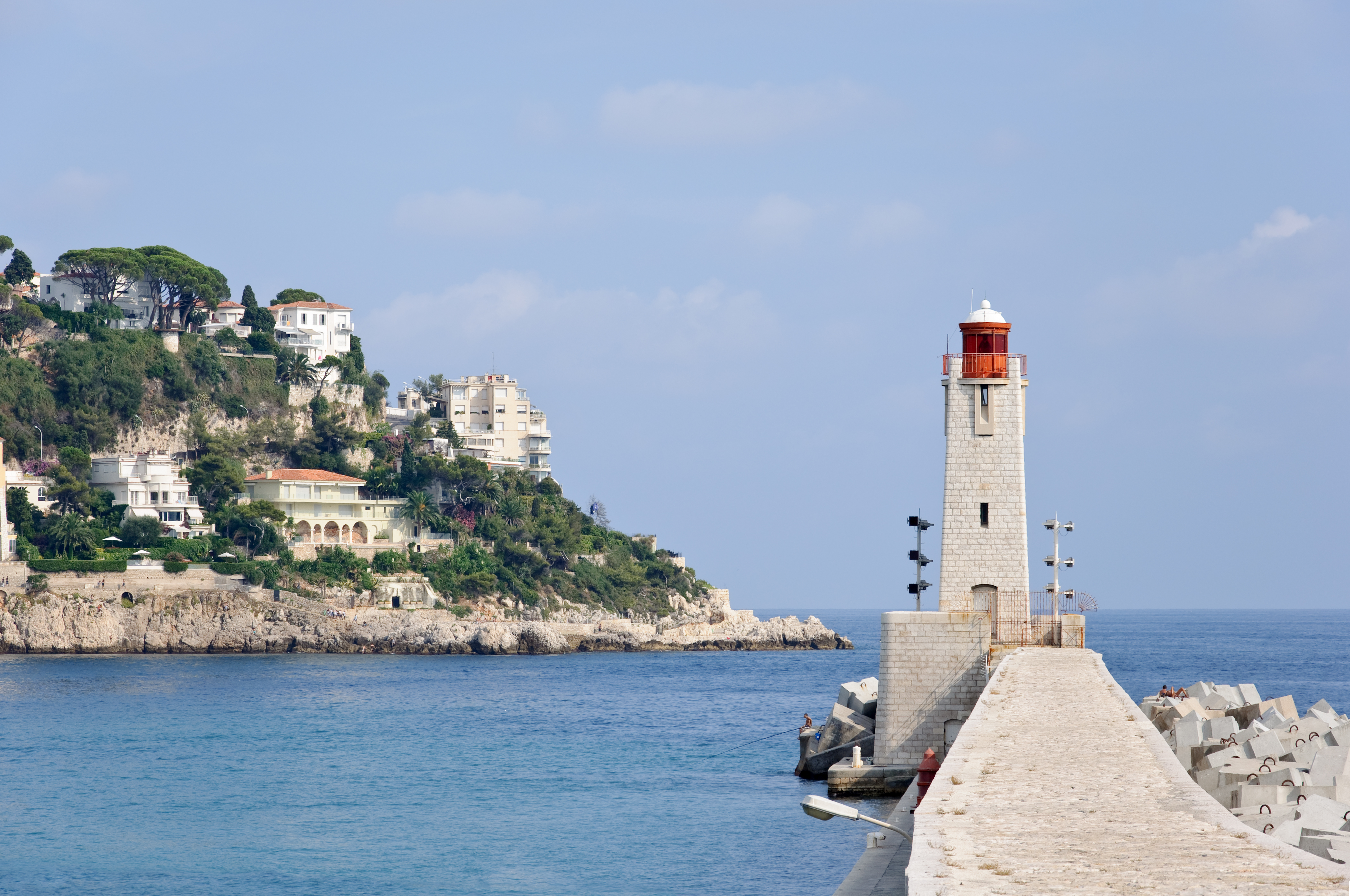 The lighthouse of Nice, on the Mediterranean coast (French Riviera).